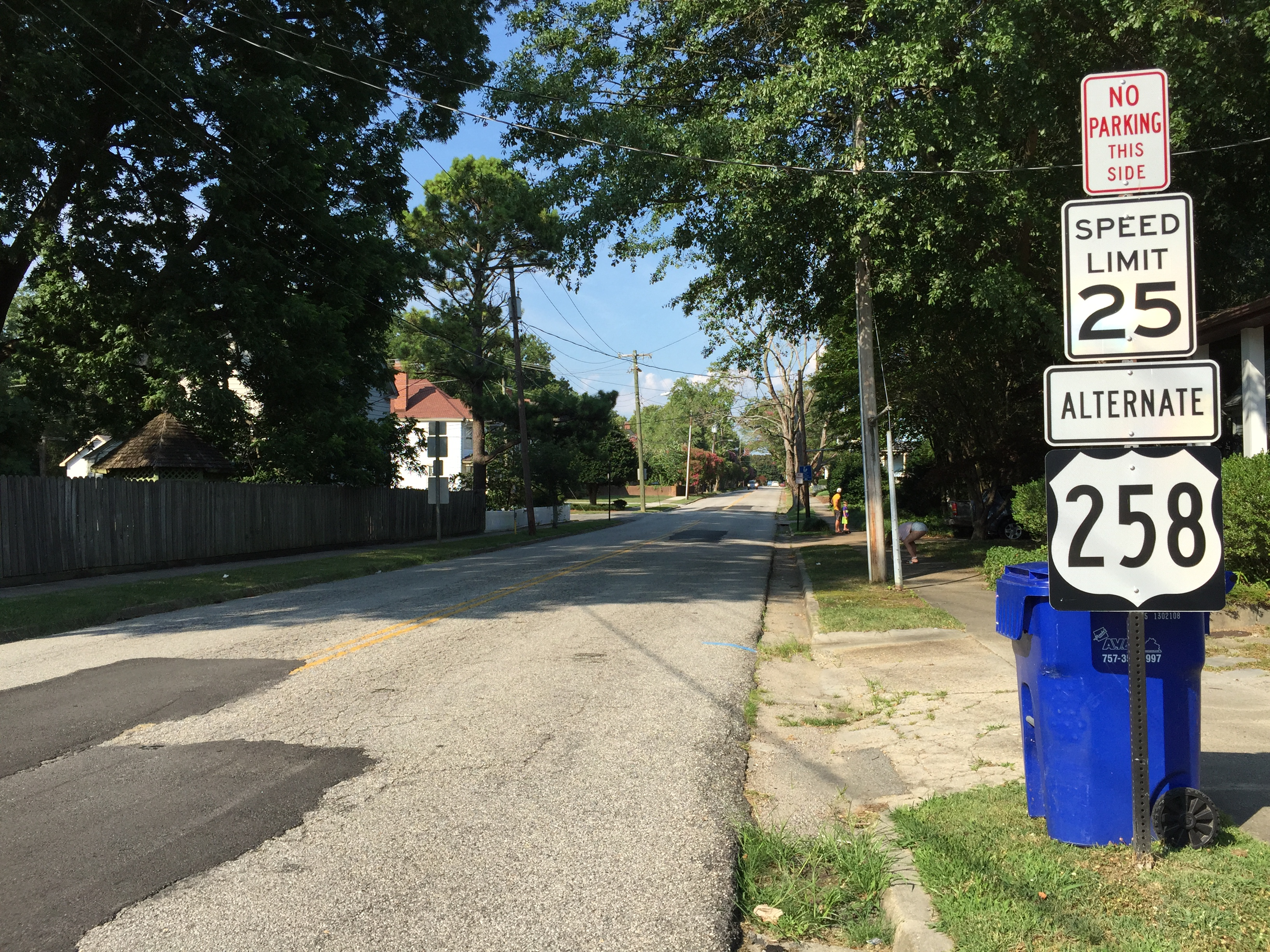 View north along U.S. Route 258 Alternate (Grace Street) at Cary Street in Smithfield, Isle of Wight County, Virginia